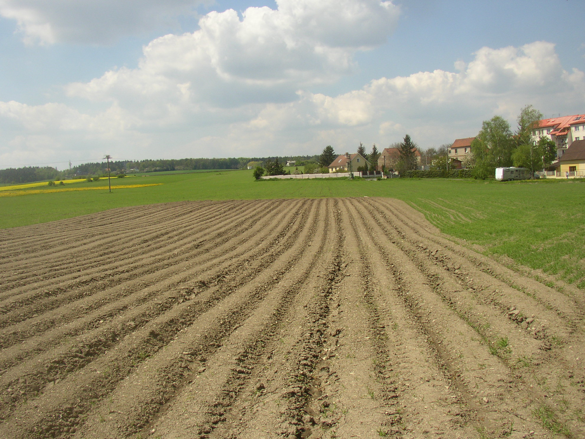 Kožová hora hill as seen from the east, from village of Velké Přítočno, Kladno District, Czech Republic.